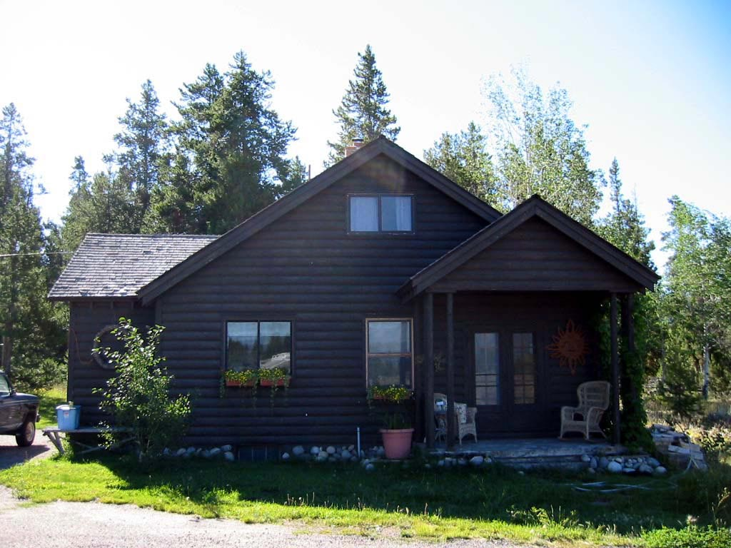 Jackson Laek Ranger Station, Grand Teton National Park, Wyoming, USA